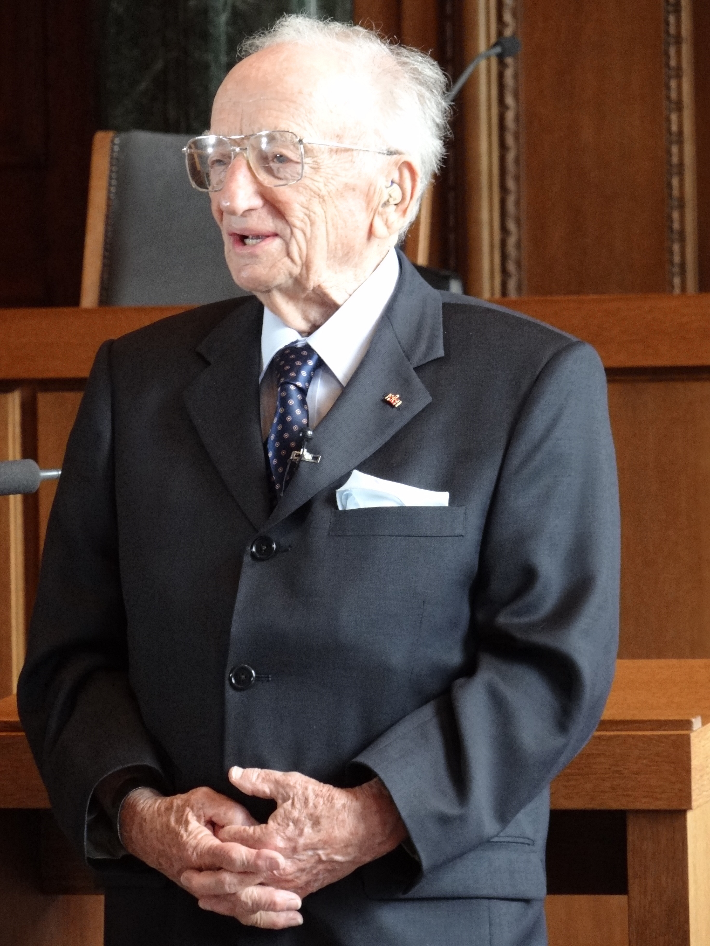 Benjamin Ferencz - Chief Prosecutor in 1947 Einsatzgruppen Trial - In Courtroom 600 Where Nuremberg Trials Were Held - Palace of Justice - Nuremberg-Nürnberg - Germany - 02